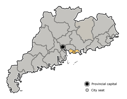 The sub-provincial city of Shenzhen is highlighted on this map of Guangdong province, People's Republic of China.